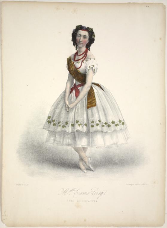 Lithograph of 19th century ballet dancer Emma Livry in Herculanum. Les Danseuses de l'Opéra; No. 10